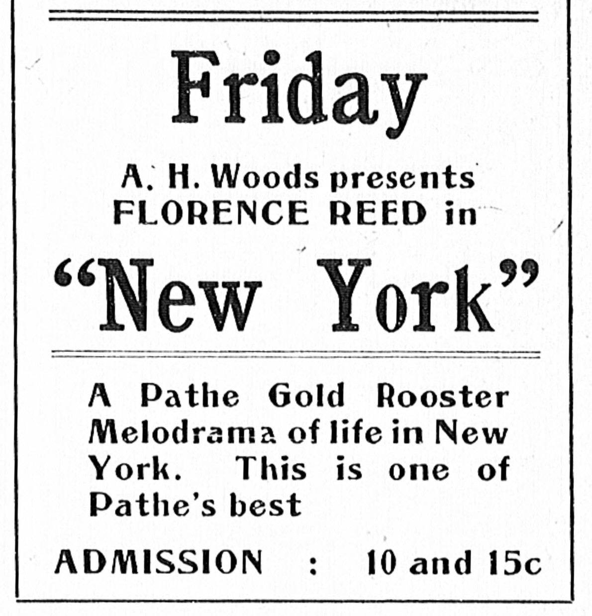 simple advertisement for the film New York